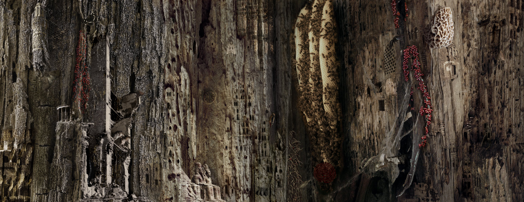 Decay, ruins, temples, rotten wood, surreal landscape, mushrooms, insects, bees